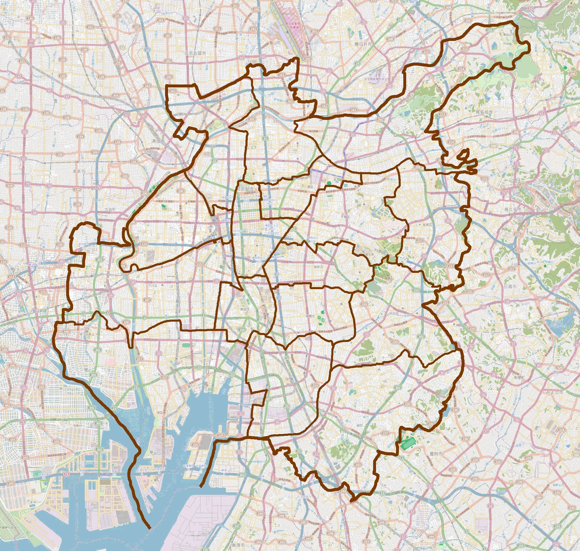 Map of Nagoya, Japan This map of Nagoya was created from OpenStreetMap project data, collected by the community. This map may be incomplete, and may contain errors. Don't rely solely on it for navigation.